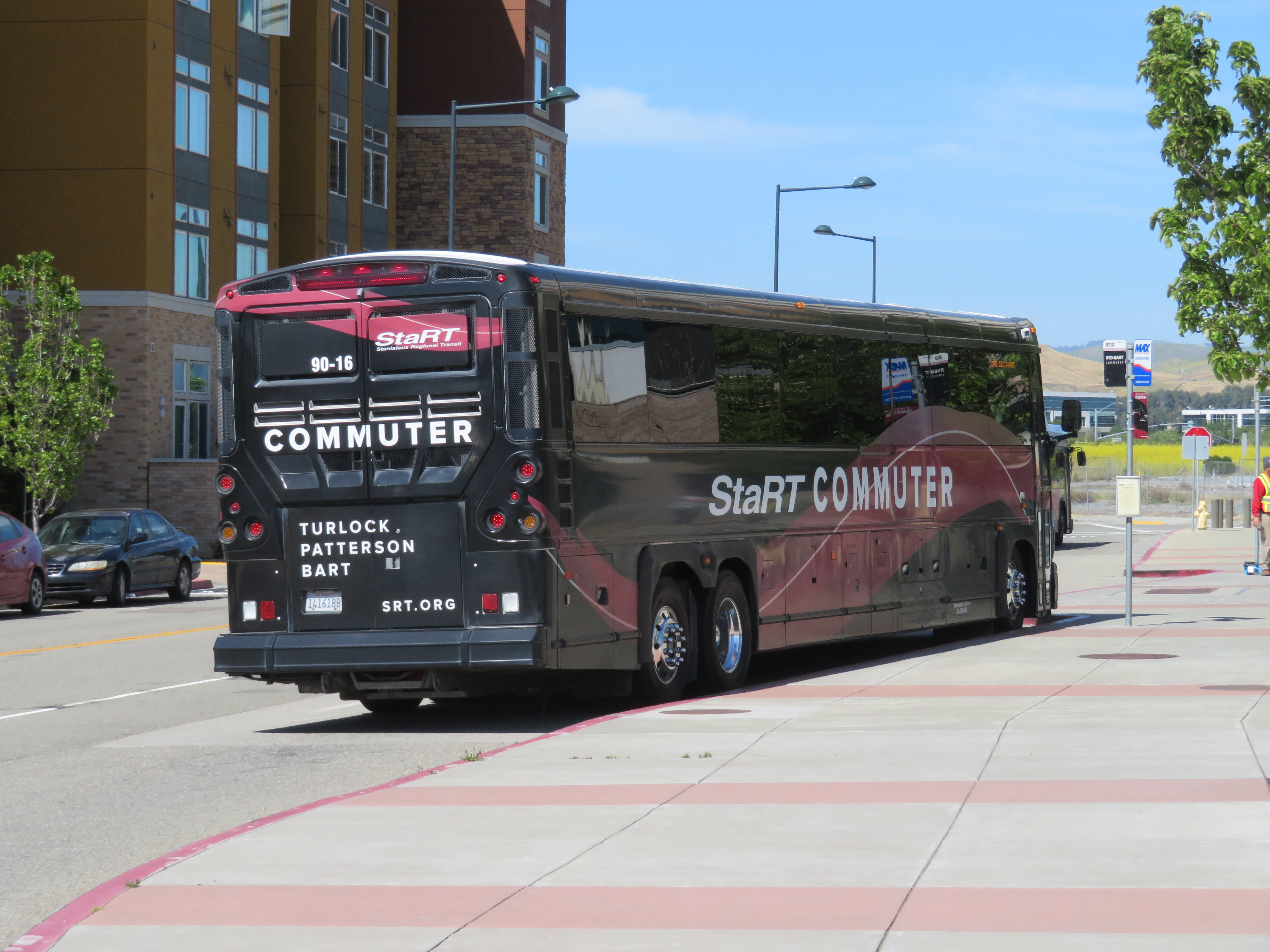 StaRT bus at Dublin/Pleasanton station in May 2018